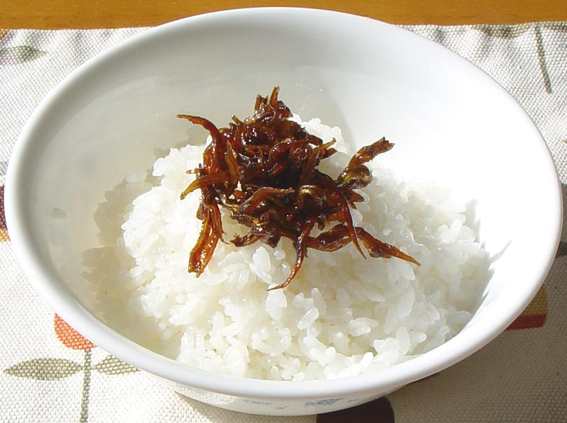 own picture from digital camera, January 2005